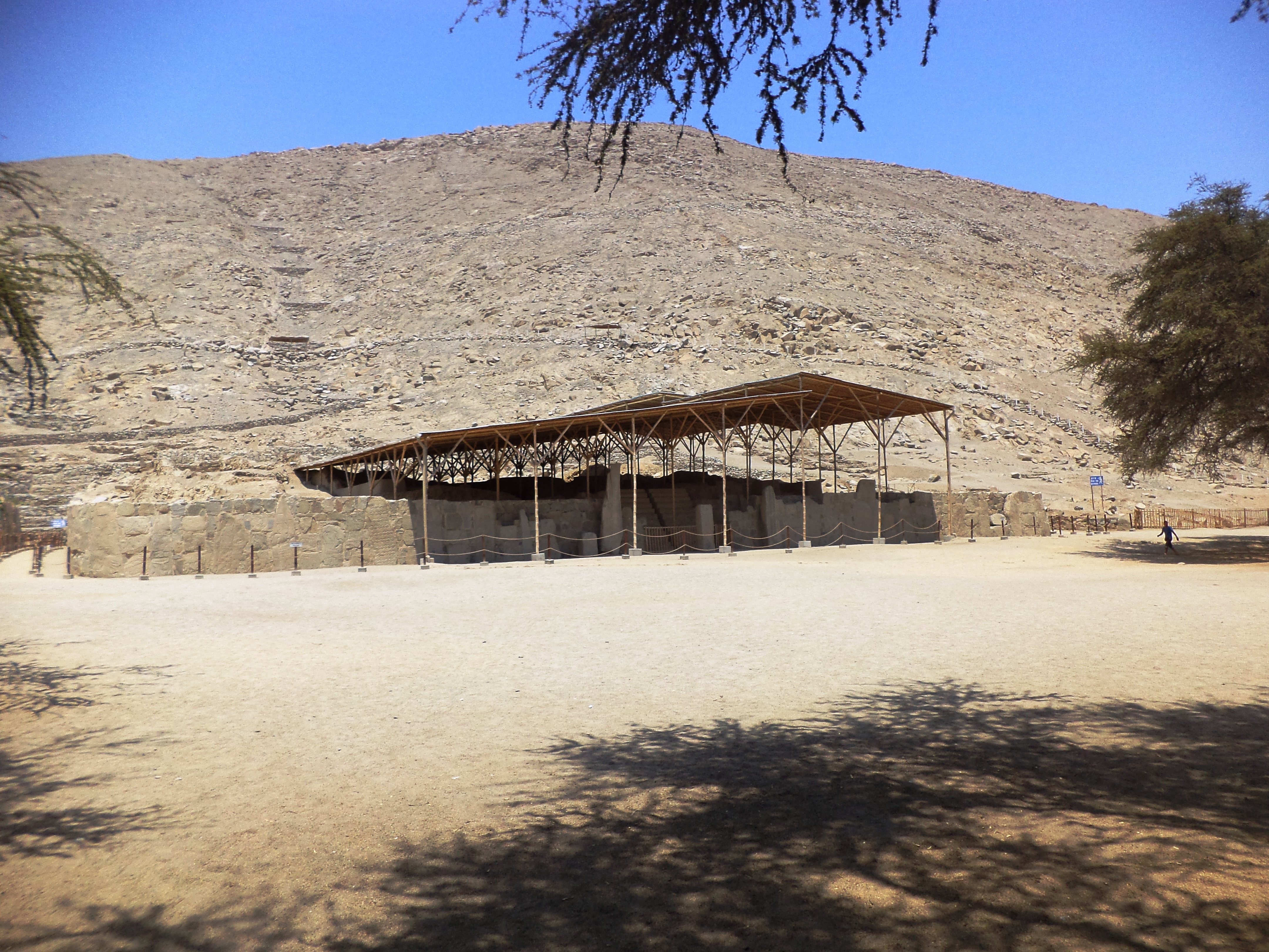 Frontis Templo Palacio Sechin /Front Sechin Palace Temple